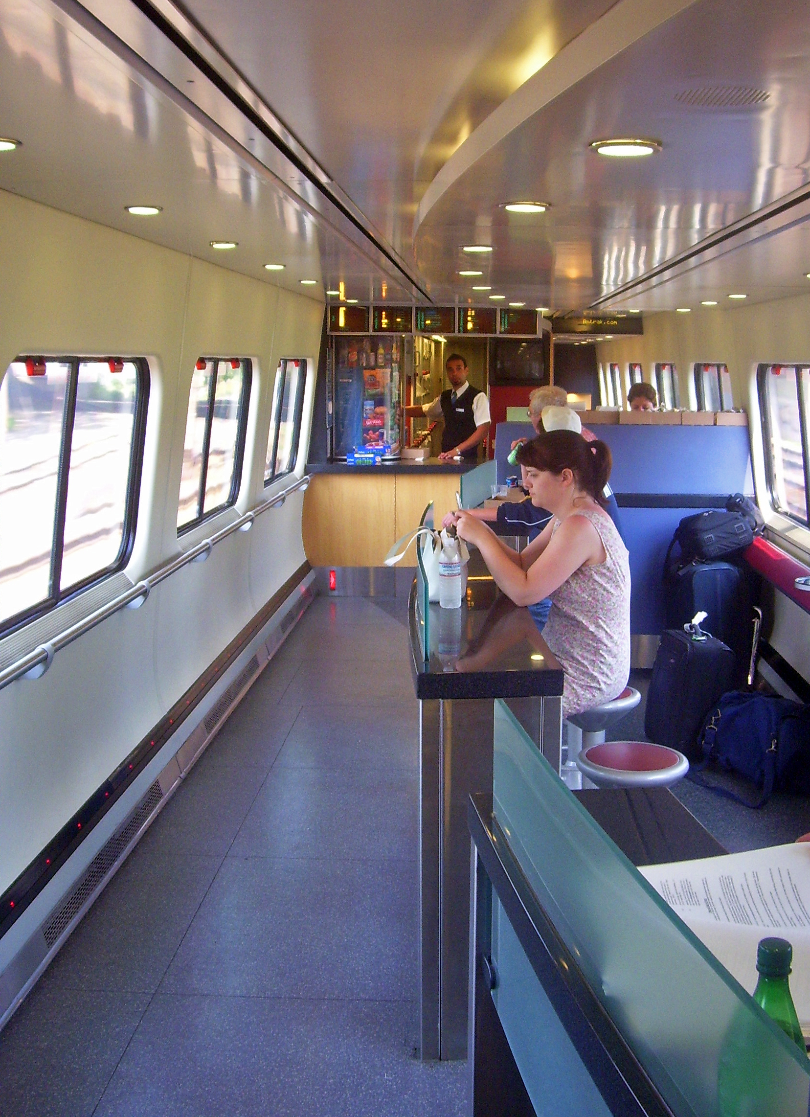 Interior view of Acela Express cafe car